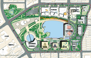 Planning and design of Tianjin Cultural Center，by Government of Tianjin City,P.R.China